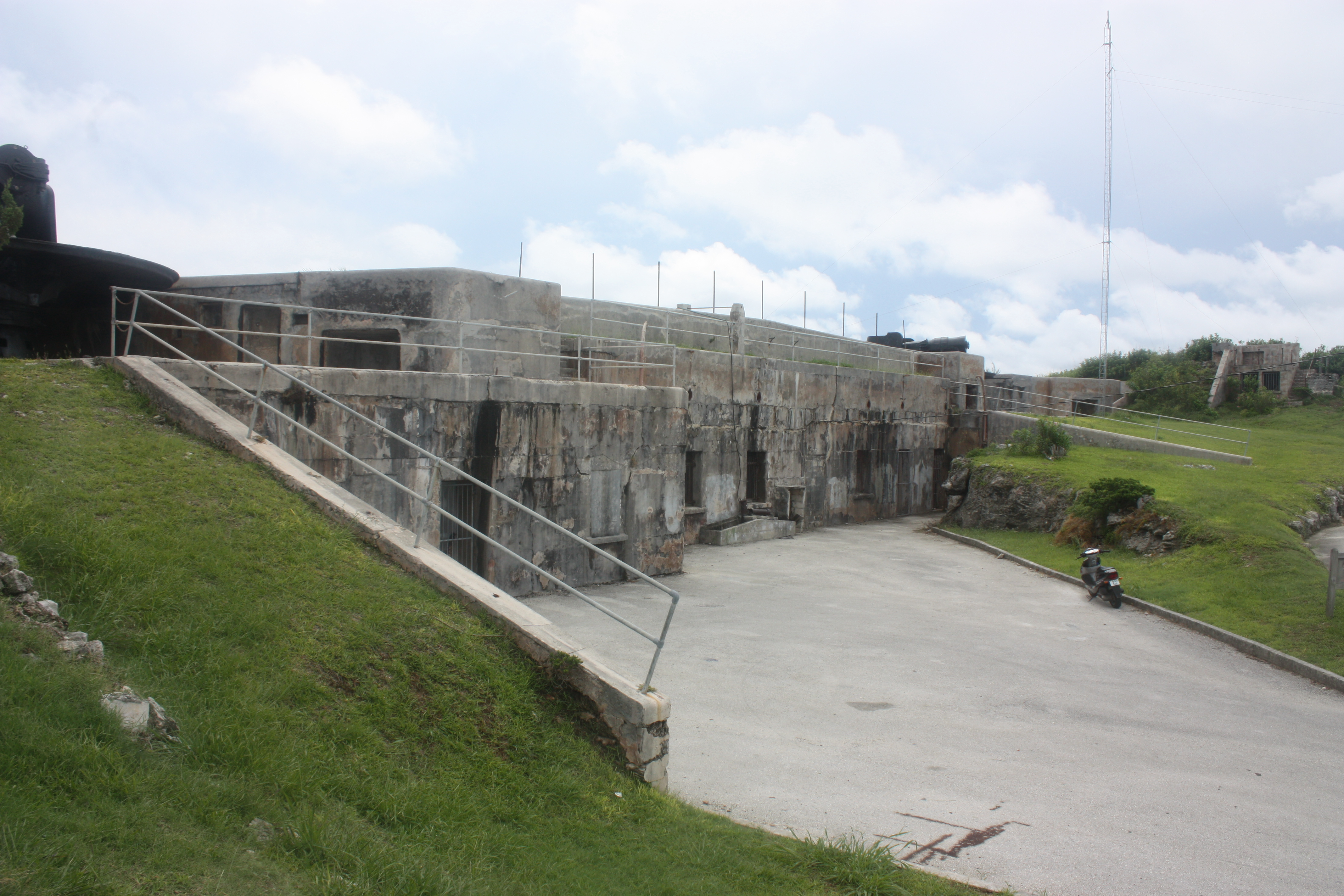 Two 9.2" Rifled Breech Loader (RBL) (BL 9.2 inch Gun Mk X) coastal artillery gun, with two 6" RBLs out of sight to the left of view, at the defunct St. David's Battery (also known as the Examination Battery), on St. David's Head (actually Great Head, the larger of the two heads which compose St. David's Head), St. David's Island, St. George's Parish, Bermuda, in 2011. This battery was historically manned by soldiers of the Regular Army's Royal Garrison Artillery, and its part-time reserve, the Bermuda Militia Artillery, as well as the regular Royal Engineers and its part-time reserve, the Bermuda Volunteer Engineers.